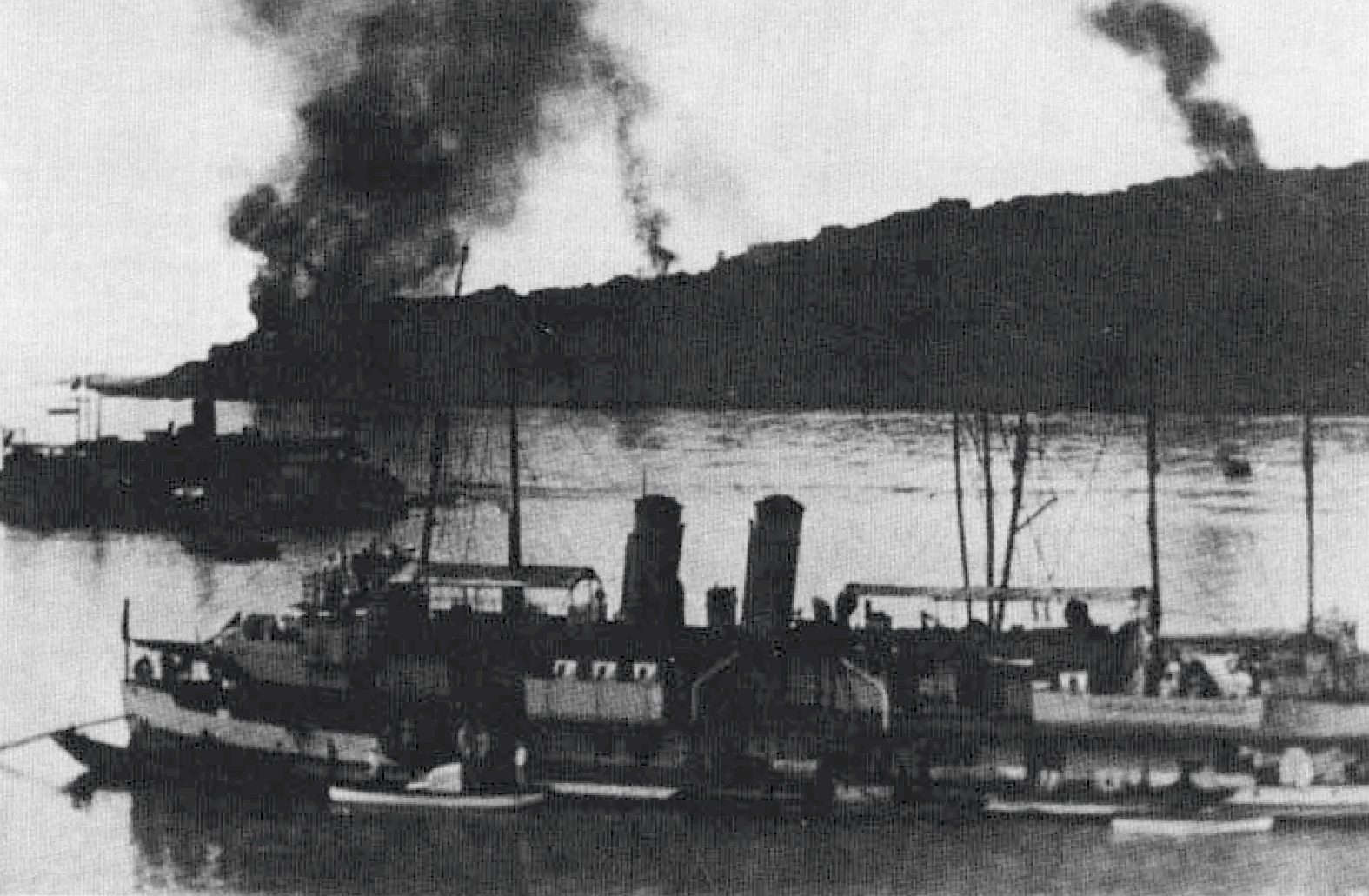 The U.S. Navy river gunboat USS Tutuila (PR-4) at Chungking during a bombing raid.